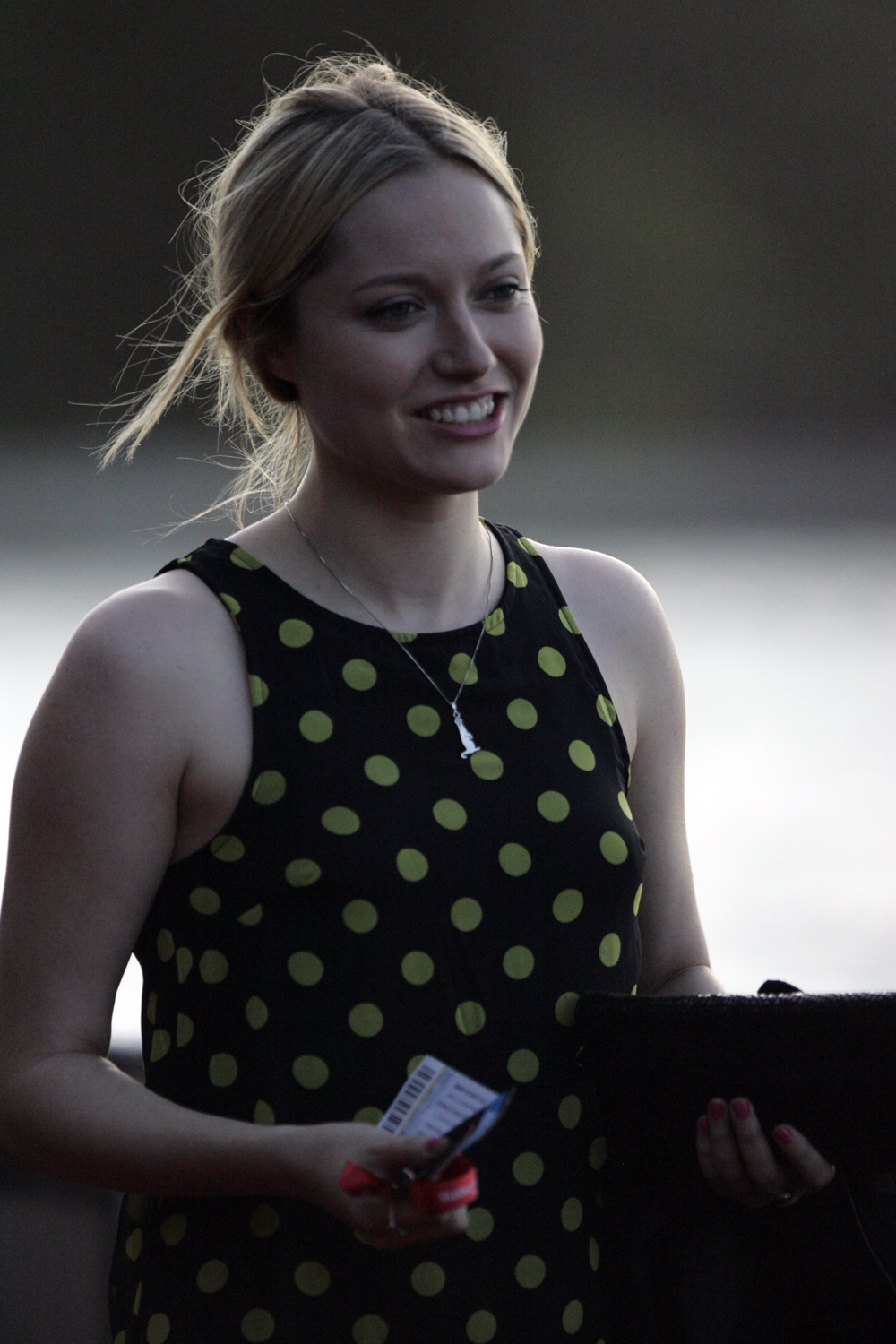 ST.GEORGE OPENAIR CINEMA CELEBRATES THE OPENING NIGHT SYDNEY PREMIERE OF 'ANNA KARENINA' WITH CHANDON St.George OpenAir Cinema is set to launch its 2013 season in style on Thursday 10 January, when celebrities, identities and more than 1900 patrons gather for the exclusive Sydney premiere of the beautiful ANNA KARENINA, directed by Joe Wright (Atonement, Pride and Prejudice) and starring Academy Award® nominee Keira Knightley, Jude Law and Aaron Taylor-Johnson. Always a leading social event, the Chandon Opening Night Party is attracting a host of VIPs eager to enjoy the unique charms of this special event.\ Guests will enjoy Chandon and canapés on the VIP deck from 6.45pm, whilst taking in the breathtaking harbour views prior to the film screening. The pitch stated confirmed guests attending the VIP area include: Brendan Cowell, Benedict Samuel, Georgina Haig, Damian Walshe-Howling, Shari Sebbens, Dion Lee, Jessica Napier, Kym Ellery, Gracie Otto, Sophie Falkiner, Camilla Freeman-Topper & Marc Freeman, Daimon Downey, Charlotte Holmes à Court, Tom Waterhouse, Annika Kabban, Pip Edwards, Adam Ashley-Cooper, Jason Dundas, Mark Ferguson, Melissa Doyle, Kylie Gillies, James Tobin, Bowie Wong and more. Websites St.George OpenAir NIXCo Music News Australia